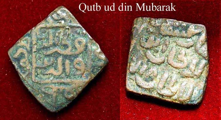 Billon coin of Qutb ud din Mubarak